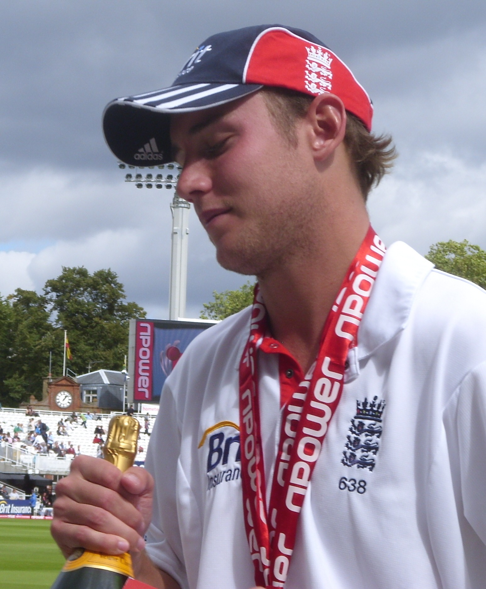 Stuart Broad Man of the Match England v Pakistan Test Match Lord's 2010